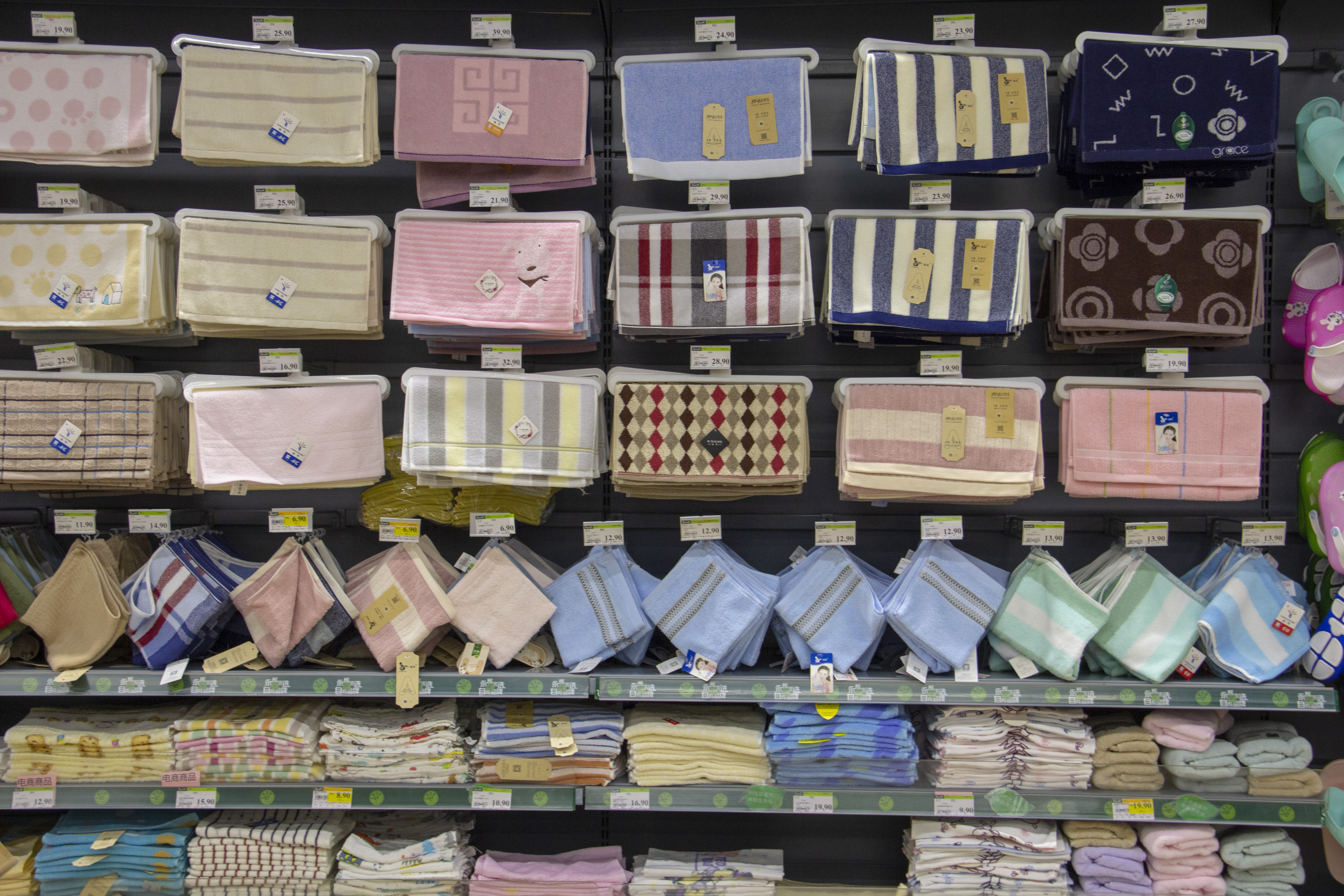 towels on a shelf